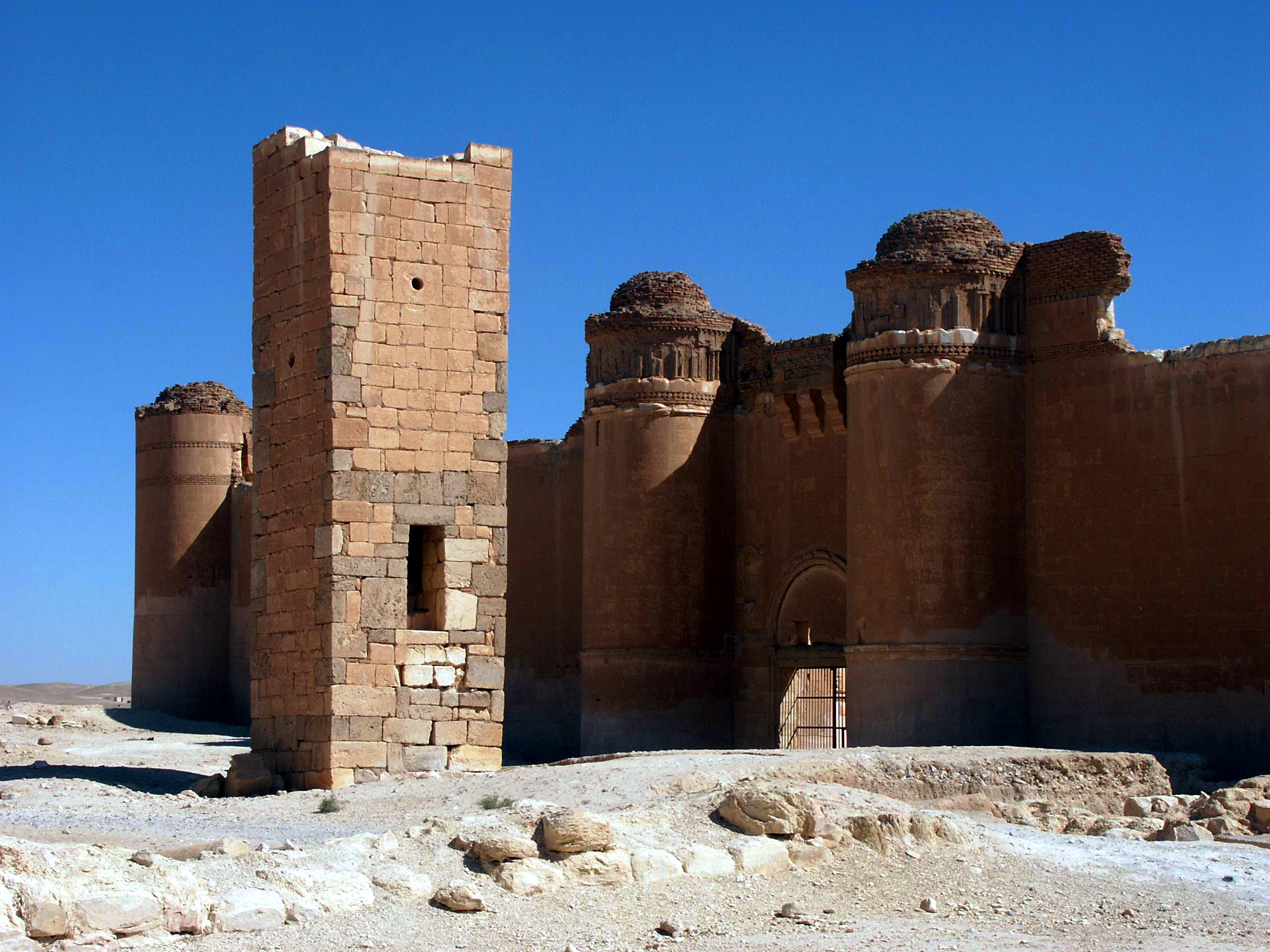 Qasr al-Hayr ash-Sharqi (Eastern al-Hayr Palace or the Eastern Castle) is a castle in the middle of the Syrian Desert. It was built by the Umayyad caliph Hisham ibn Abd al-Malik in 728-29 CE in an area rich in desert fauna. It was apparently used as a military and hunting outpost. The palace is the counterpart of Qasr al-Hayr al-Gharbi, a nearby castle palace built one year earlier. Qasr al-Hayr al-Sharq is 10 kilometres (6.2 mi) from al-Sukhnah and 100 kilometres (62 mi) from Sergiopolis (Rusafa), near Bishri Mountain near Palmyran Middle Mountains. Architecture The palace consists of a large open courtyard surrounded by thick bulwarks and towers guarding the entrances as well as each corner.The palace consists of two square structures, one with a diameter of 300m and the other of 100 metres (330 ft). The palace(s) contains remnants of rooms, arches and columns which seem to be parts of a huge royal complex. Some of the decorated parts have been moved to the National Museum of Damascus while the gate has been reconstructed in the Deir ez-Zor Museum. The bigger palace has been several floors, with a huge gate and many towers. Towers were not built as defensive measures. There were also olive yards. The palaces were supplied with water by nearby Byzantine church by a canal 5,700 metres (6,200 yd) long. The palaces contained bathrooms, water reservoirs, mosques and gardens. World Heritage Status This site was added to the UNESCO World Heritage Tentative List on June 8, 1999 in the Cultural category.